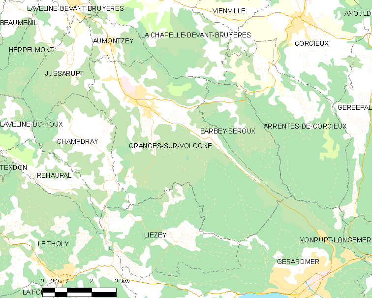 Map of French municipality Granges-sur-Vologne